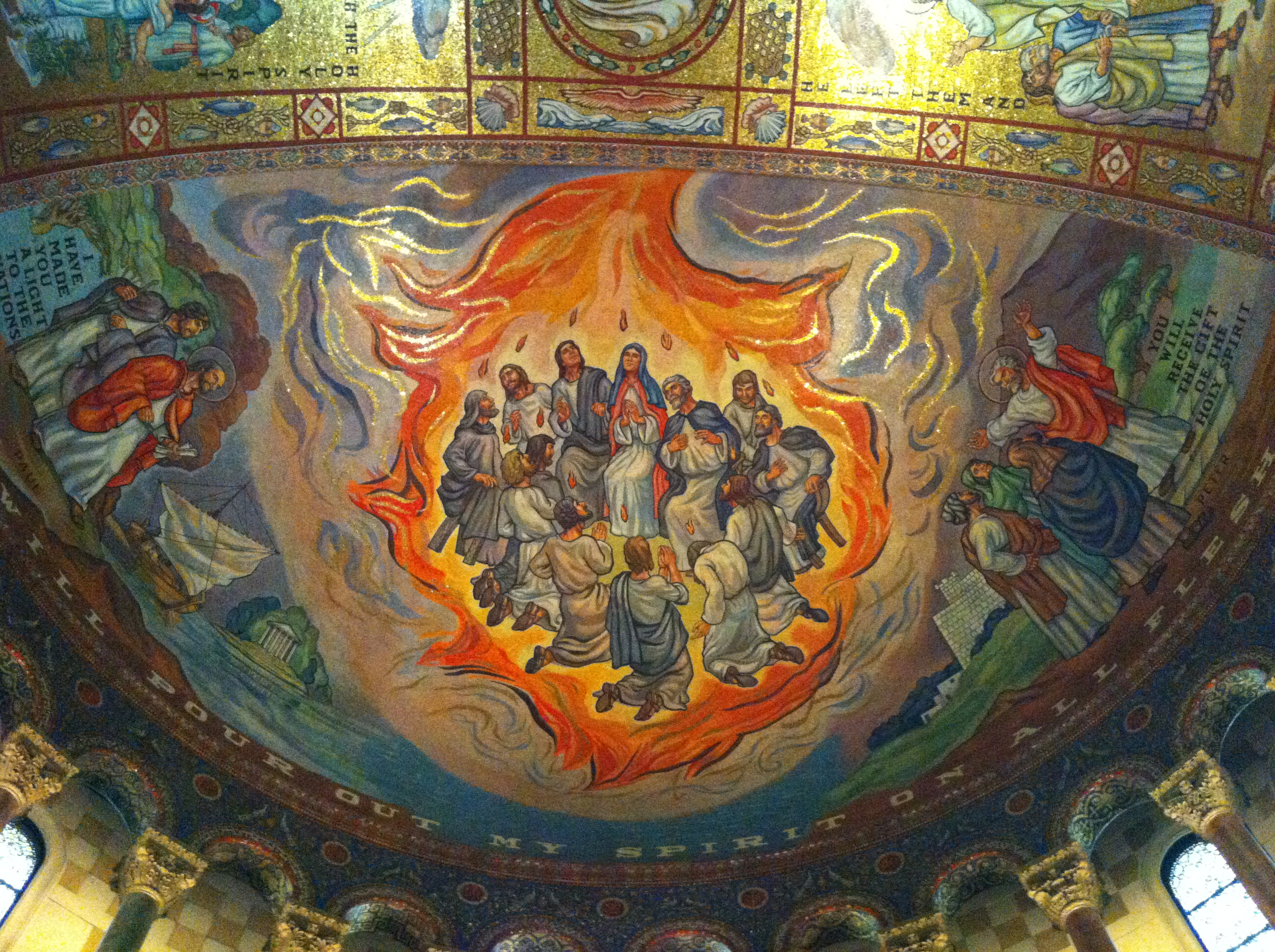 A mosaic representing Pentecost on the ceiling of the cathedral